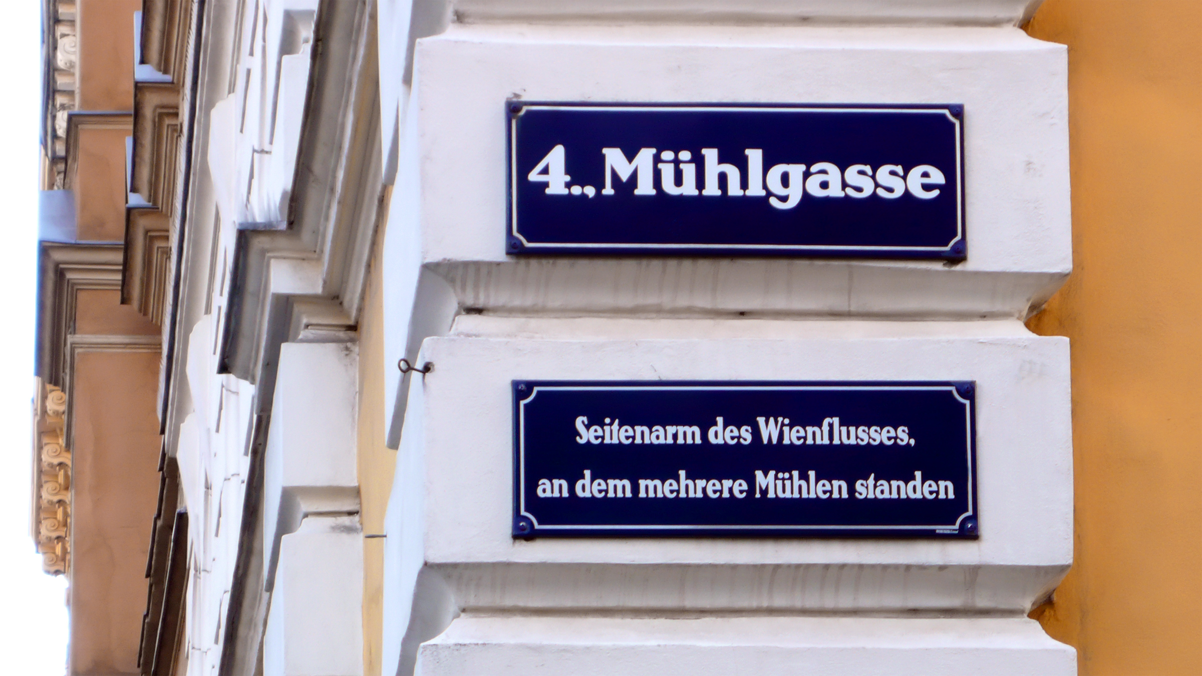 Mühlgasse in Vienna, Wieden